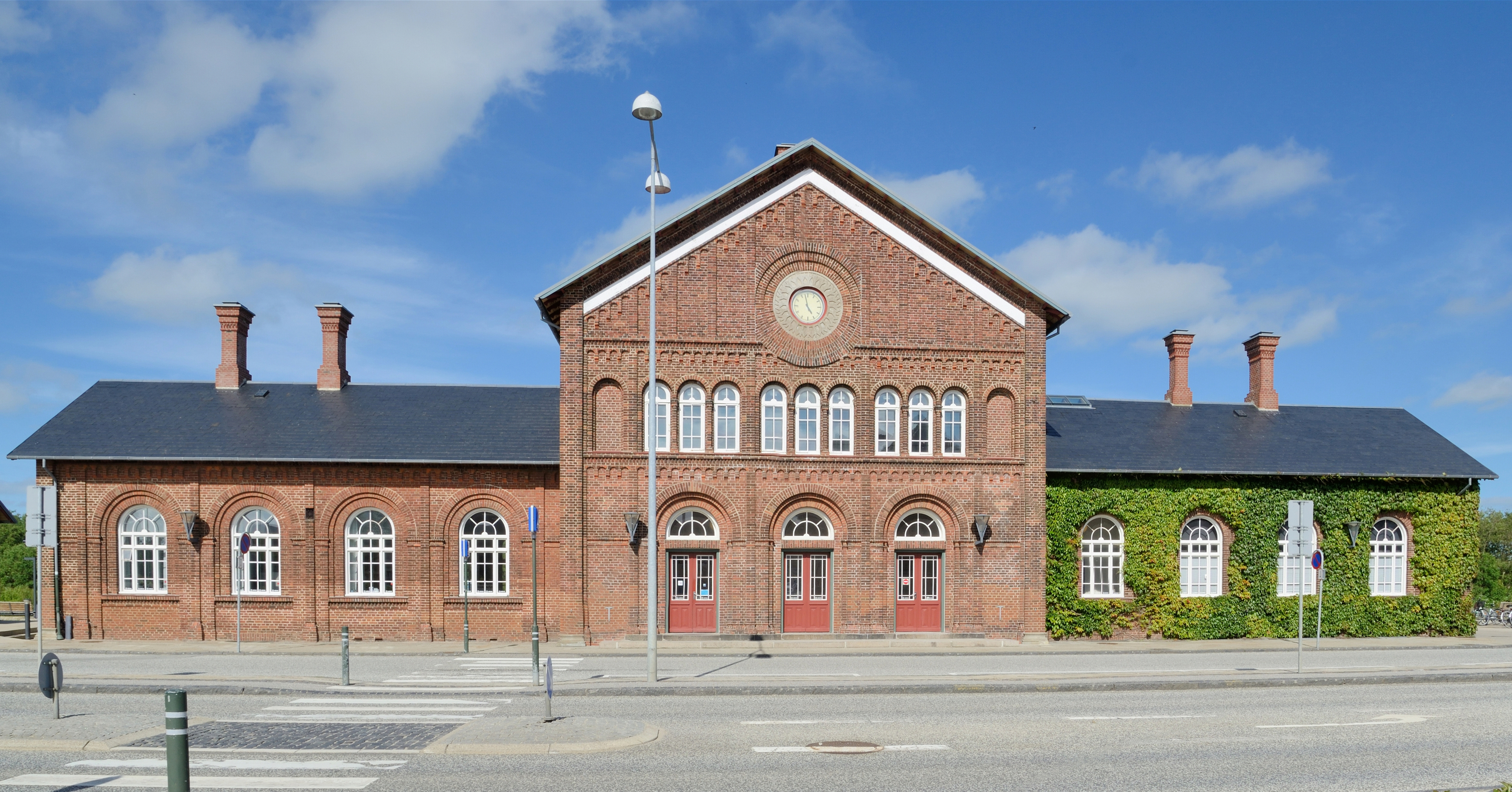 Ringkøbing: Train Station